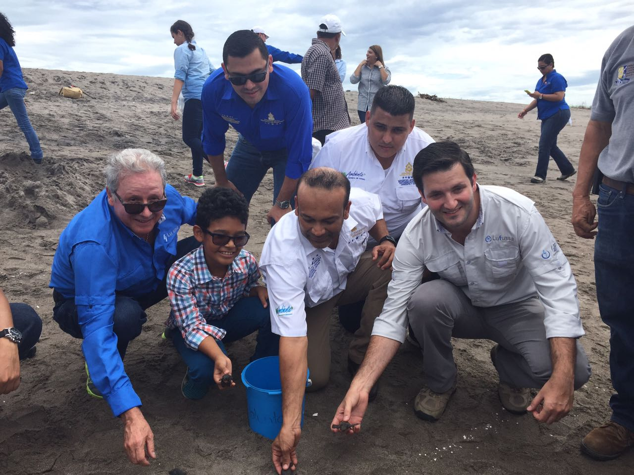 Luis and Christopher Kafie among enviromental goverment members in Punta Condenga, turtle liberation